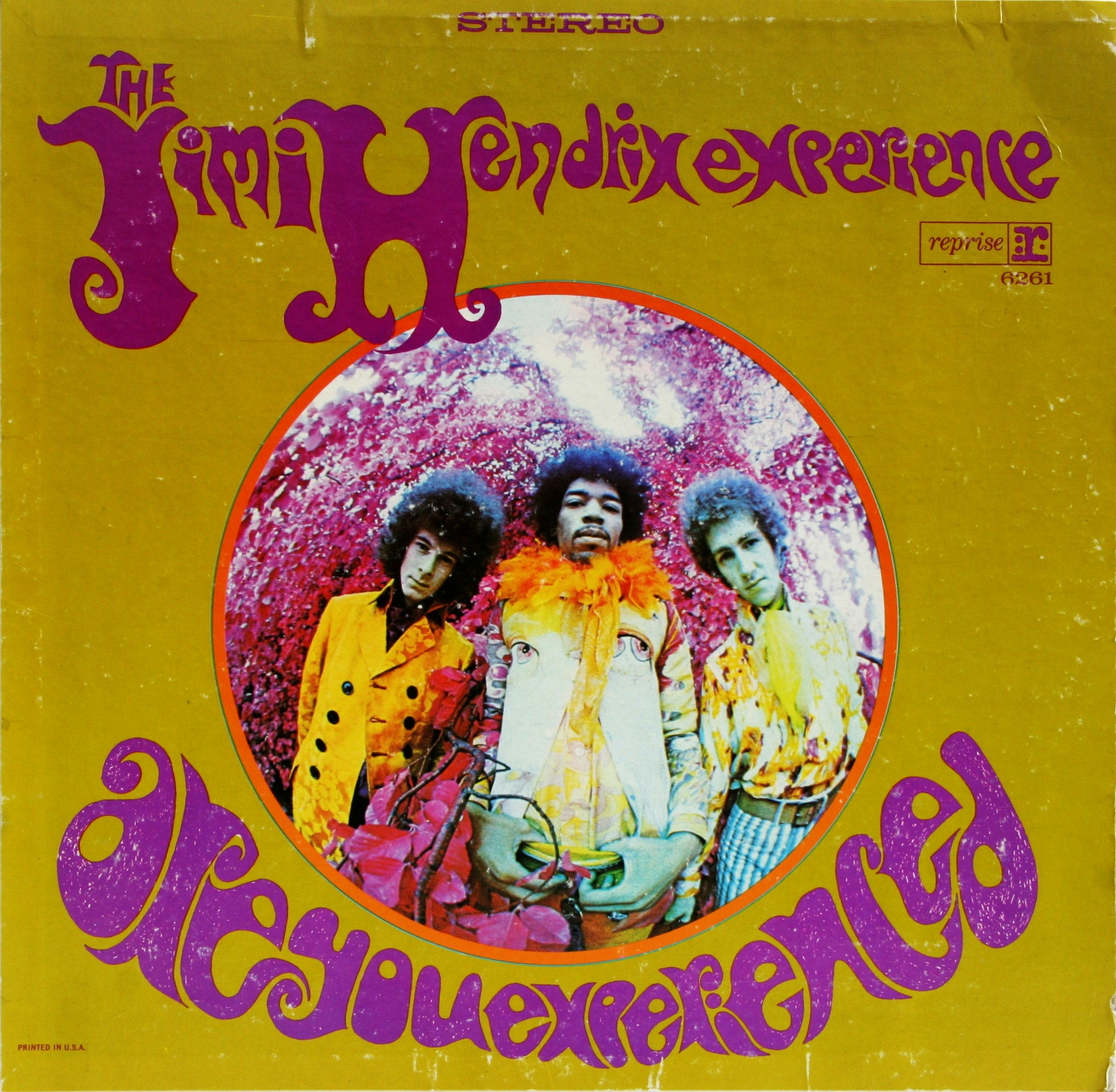 Album cover for the U.S. version of Are You Experienced by The Jimi Hendrix Experience. Reprise LP 6261.